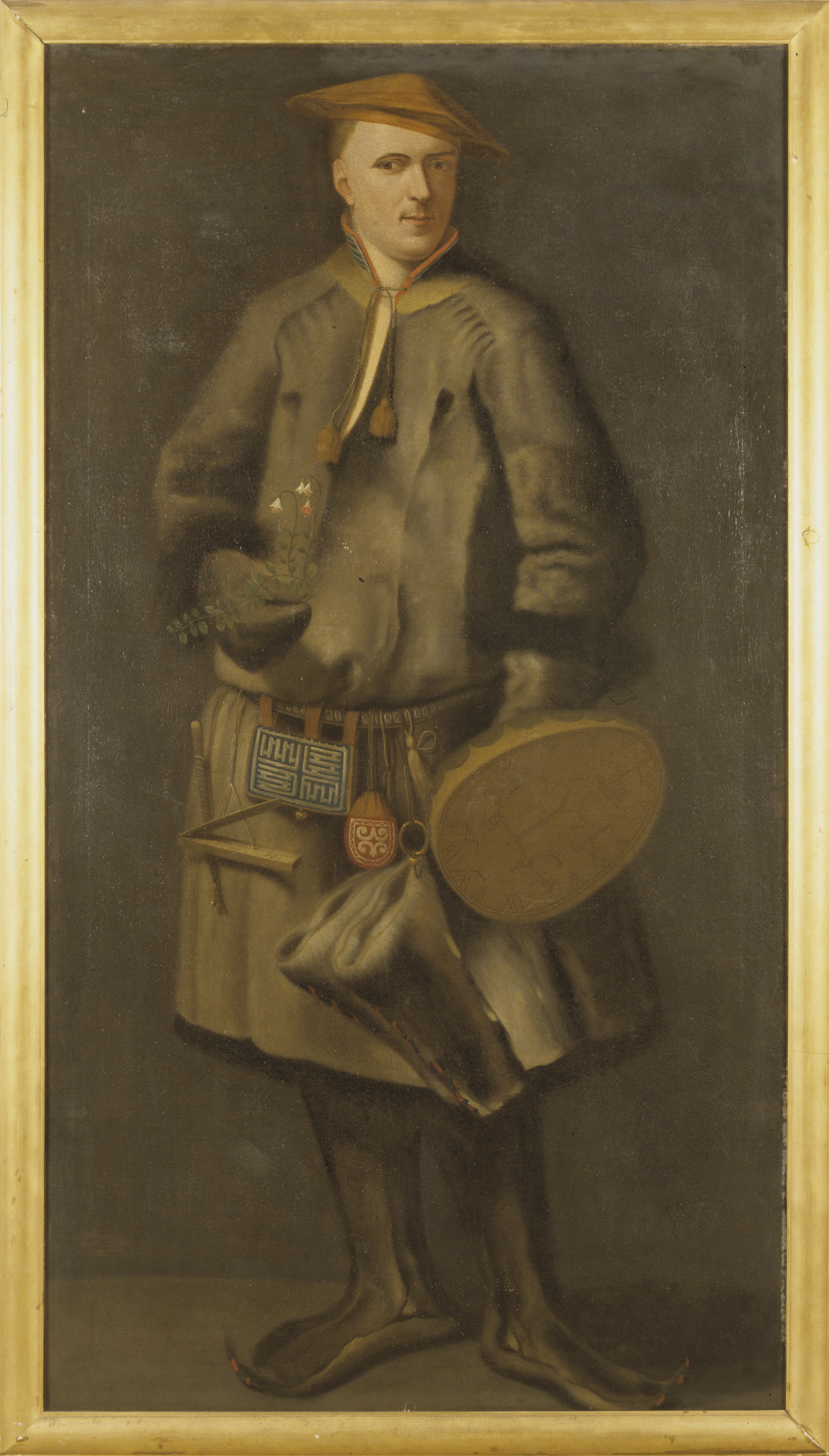 Painting showing Carl von Linné (Linnaeus) in his Lapland costume. In his hand is the plant that Jan Frederik Gronovius named after him: Linnaea borealis. The text CAROLUS LINNAEUS e Lapponia Redux Aetat. 30 anno 1737 on the drum on the original in the Museum Boerhaave is missing here.